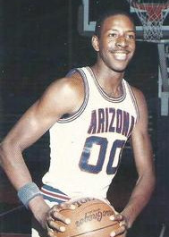 Basketball player Anthony Cook with the Arizona Wildcats.